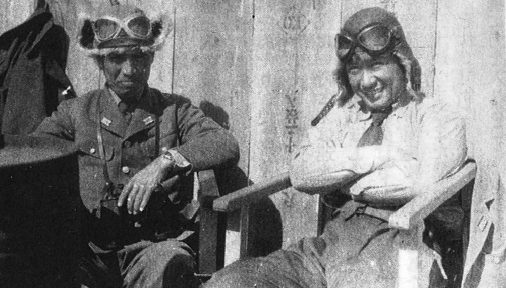 Minoru Genda (left) and Yoshio Shiga (right), 1945 spring, at Matsuyama Air Base.